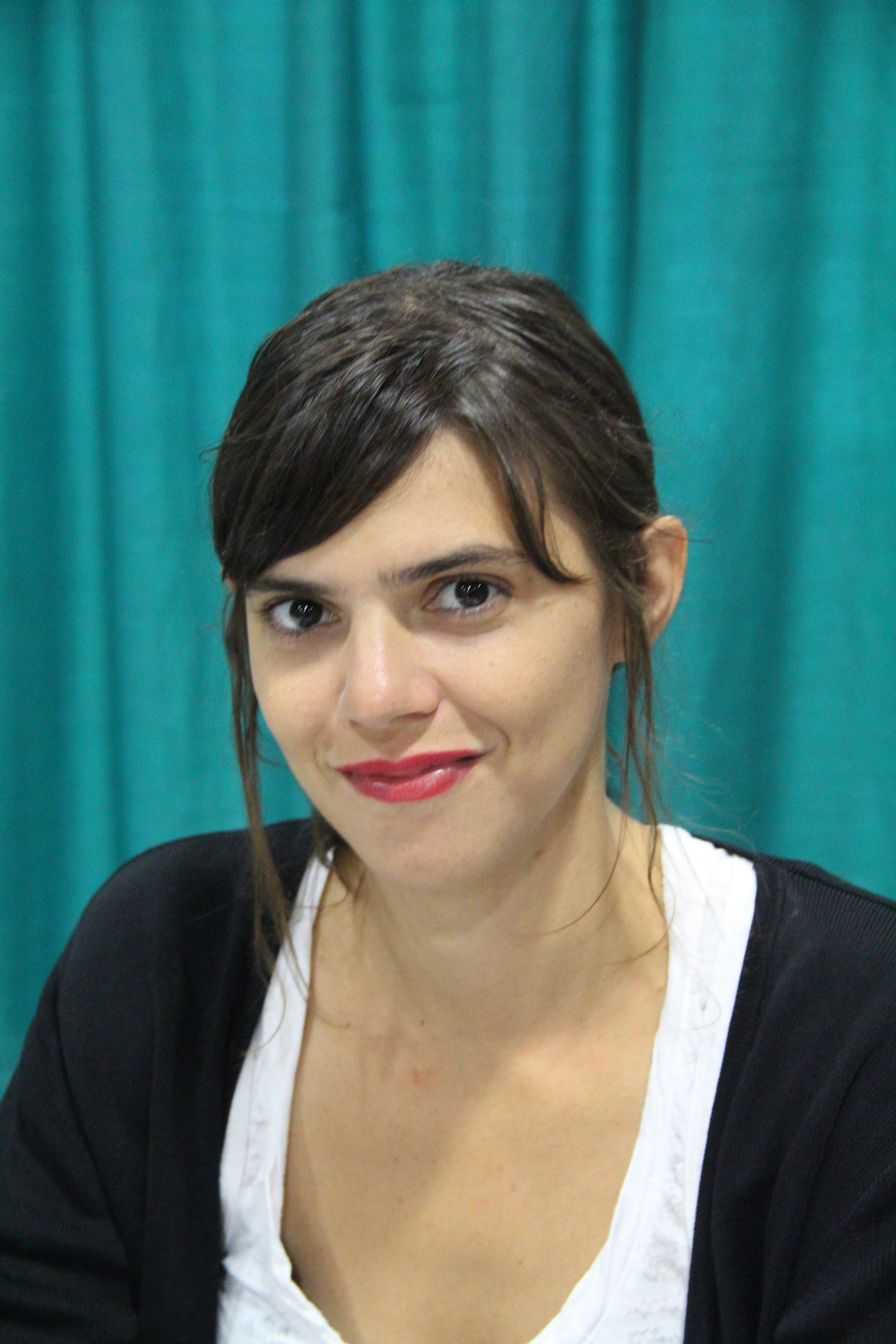 2015 Library of Congress National Book Festival September 5, 2015 Washington, DC